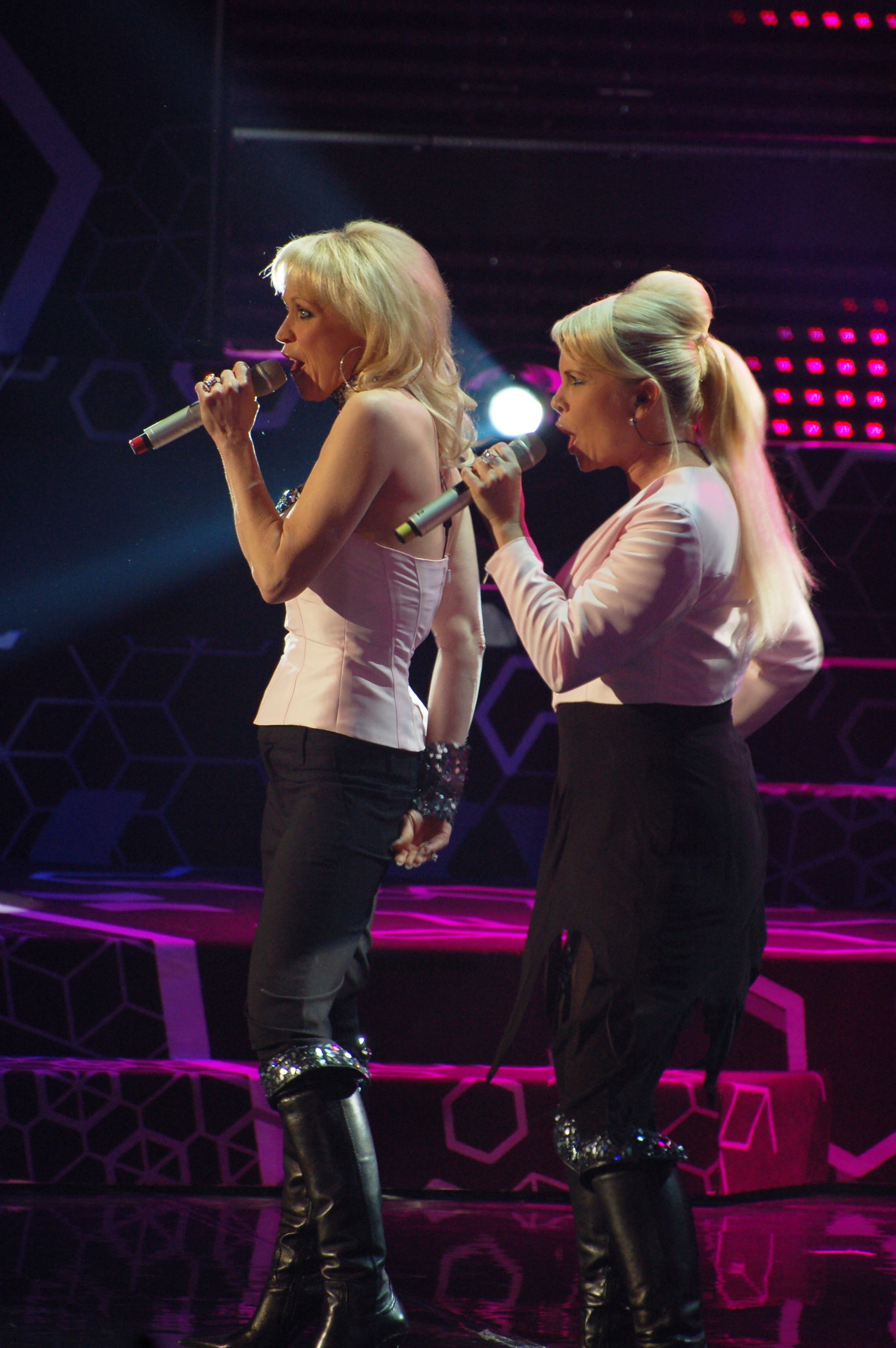 Lili & Susie Melodifestivalen 2009 during the Second chance contest in Norrköping.